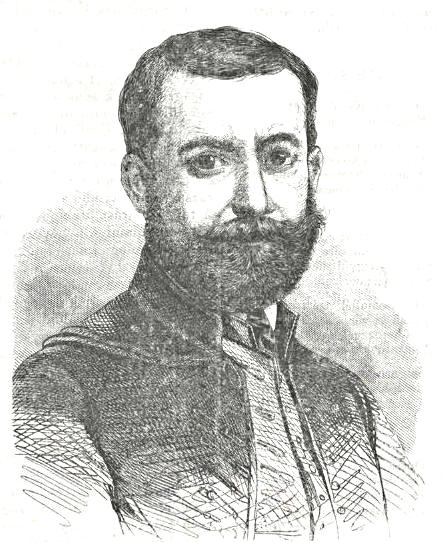 Portrait of Károly Ráth